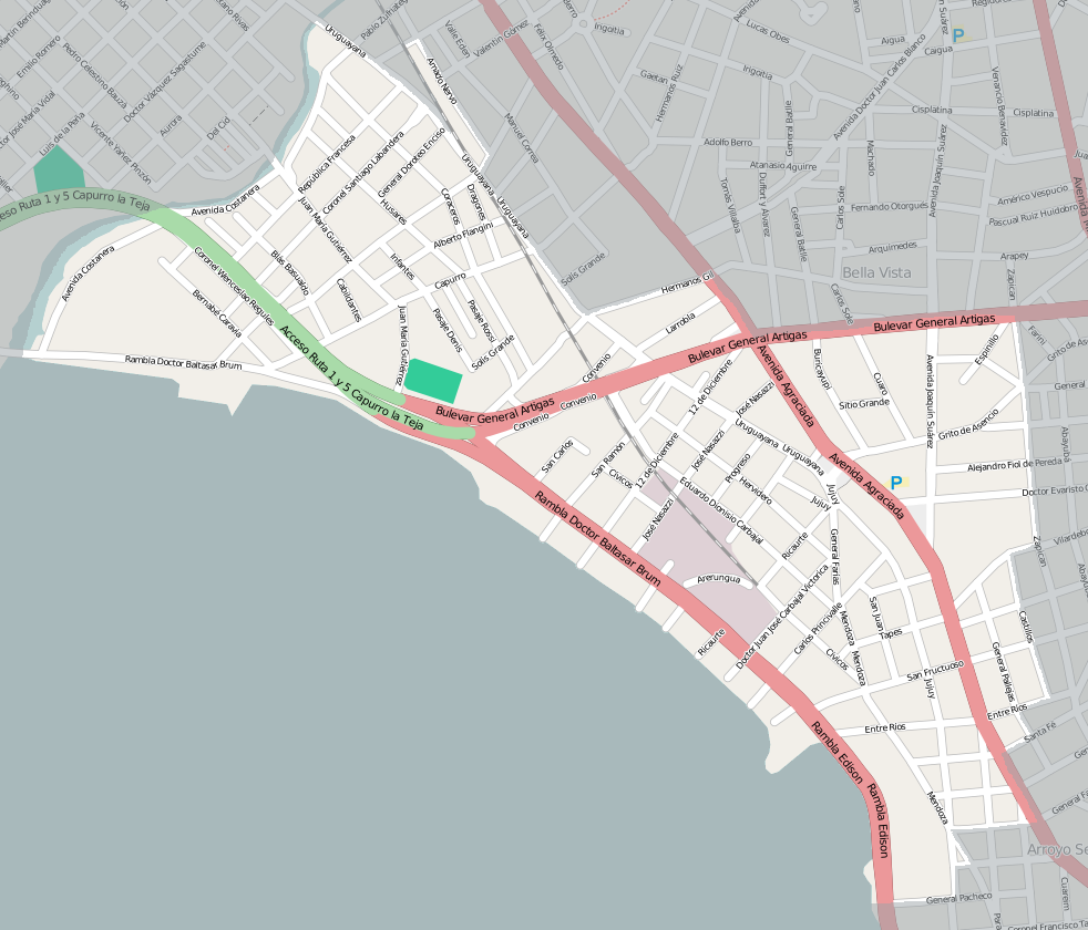 Street map of Capurro - Bella Vista, Montevideo, exported from OpenStreetMap. I added shading to delimit the barrio. This map may be incomplete, and may contain errors. Don't rely solely on it for navigation.